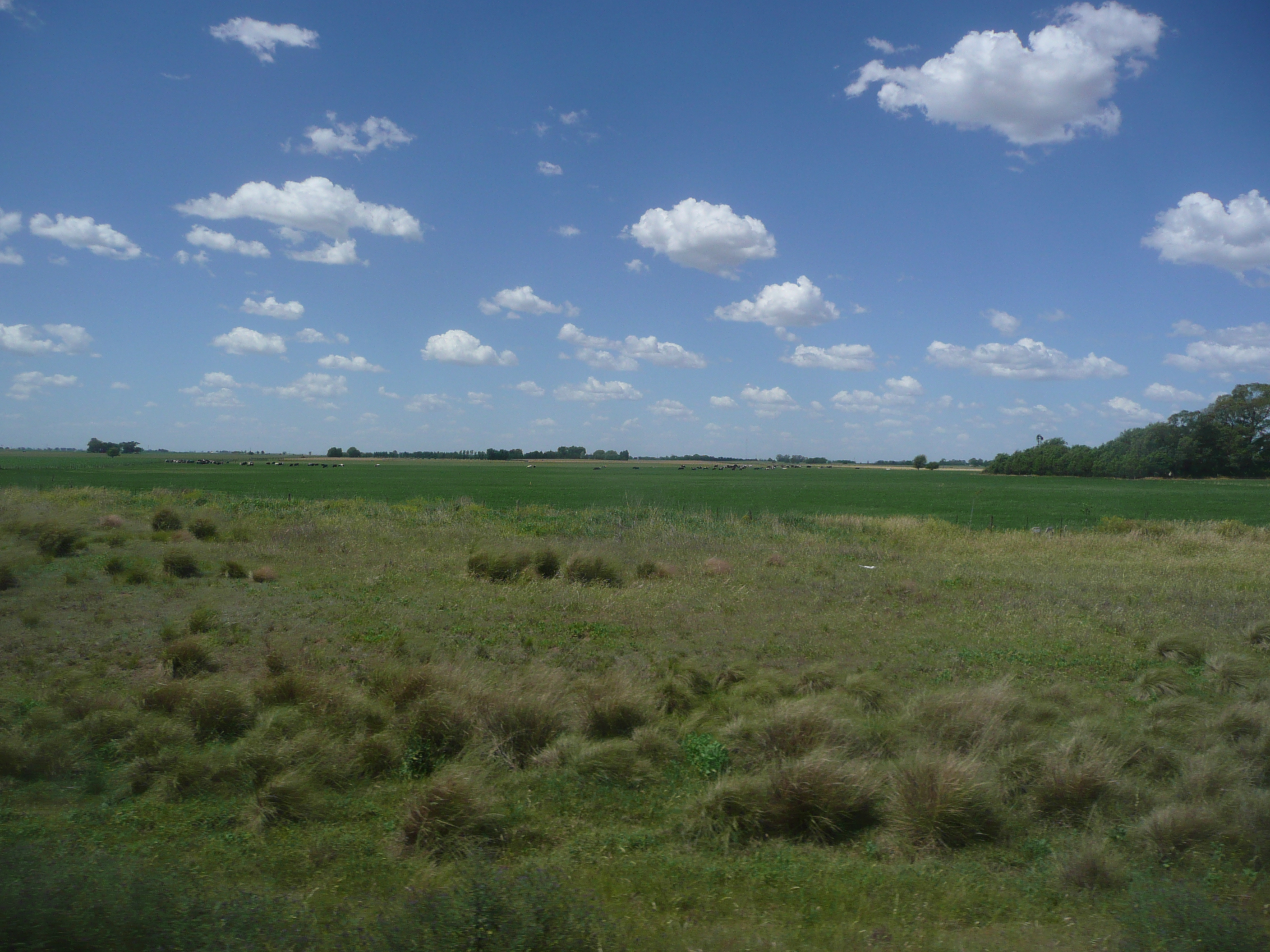 Route 33 (Argentina) from Fortín Olavarría to Trenque Lauquen.